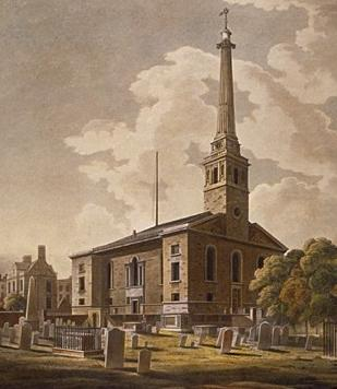 Engraving of the parish church of St John Horsleydown, Bermondsey, London SE1, seen from the northwest. In 1940 the church was severely damaged by a Luftwaffe bomb and after 1968 it was demolished.